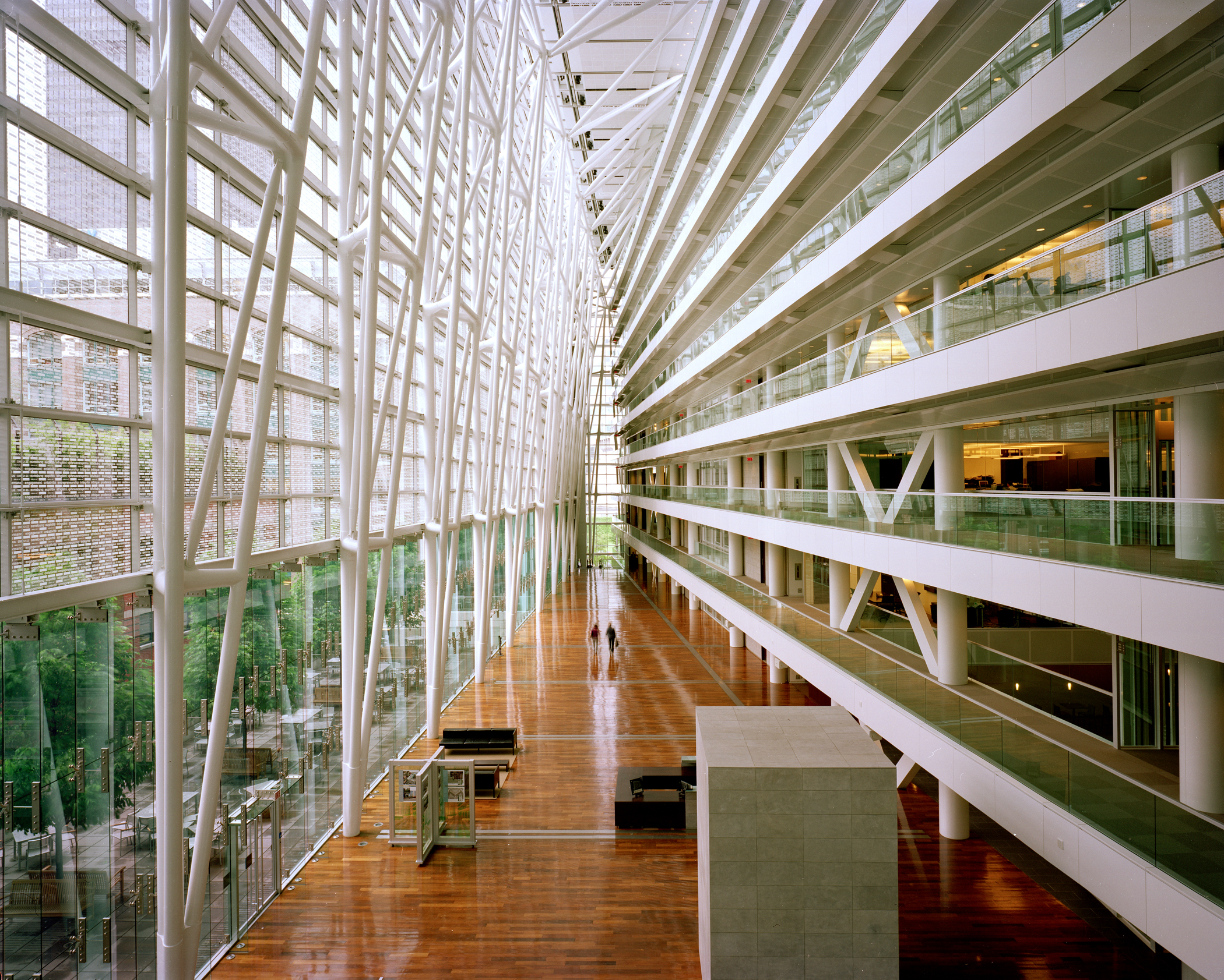 Centre CDP Capital, Montreal. Ivanhoé Cambridge Head Office.